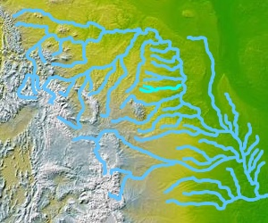 Moreau River © 2004 Matthew Trump